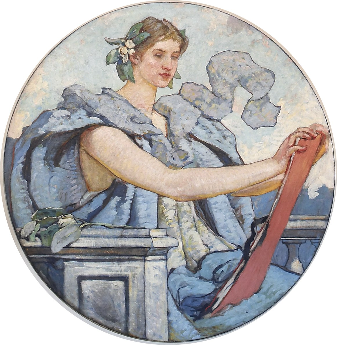 Wisdom, mural by Robert Lewis Reid. Second Floor, North Corridor. Library of Congress Thomas Jefferson Building, Washington, D.C. Caption underneath reads "KNOWLEDGE COMES BVT WISDOM LINGERS".